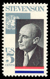 US stamp honoring Adlai Stevenson